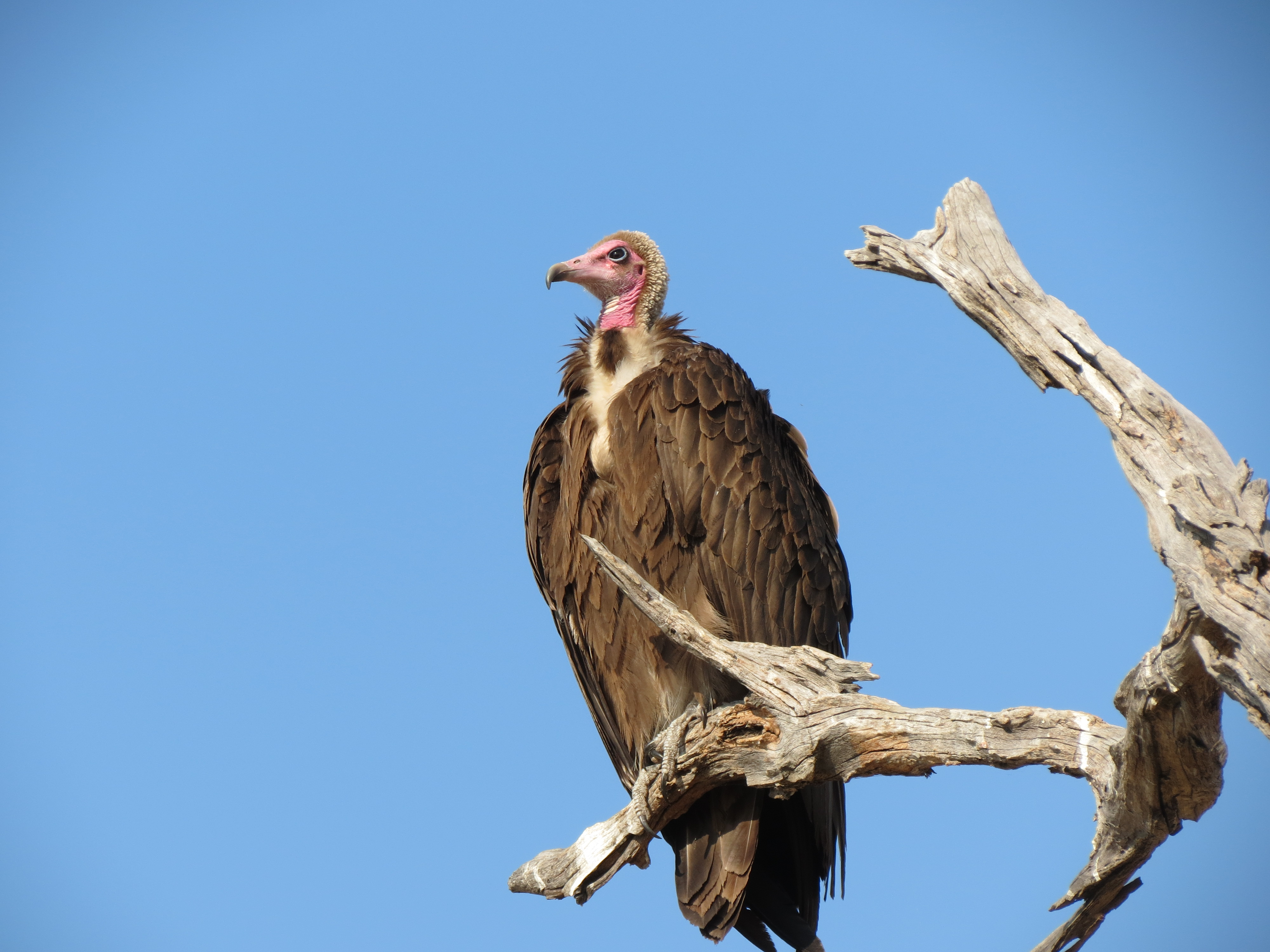 Hooded Vulture Necrosyrtes monachus in Moremi Game Reserve, Botswana